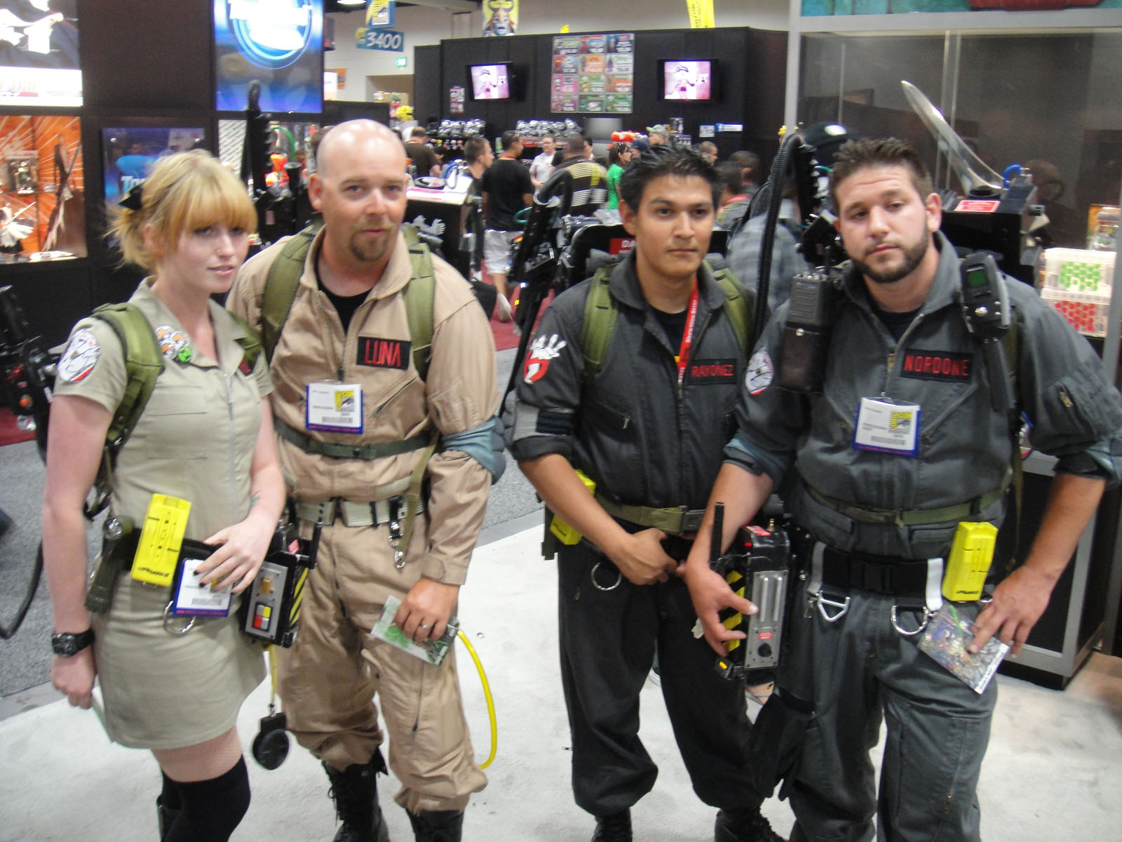 San Diego Comic-Con 2011 - Ghostbusters!